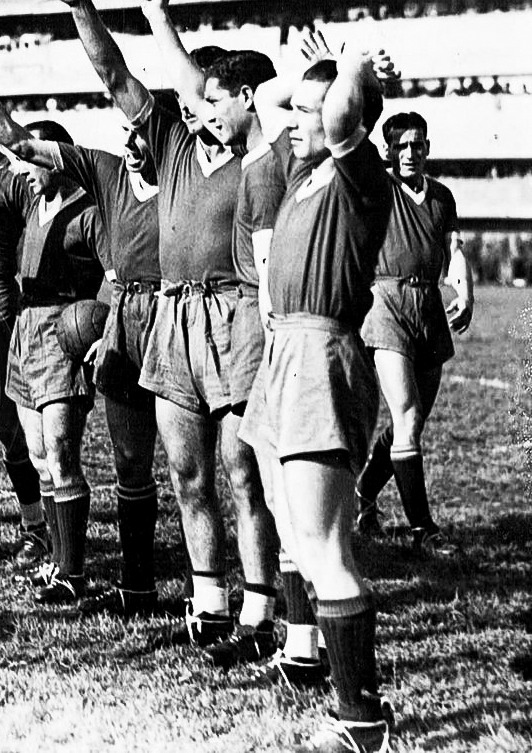 Juan Jose Maril with the entire Independente team raising their arms to greet their audience in 1940.